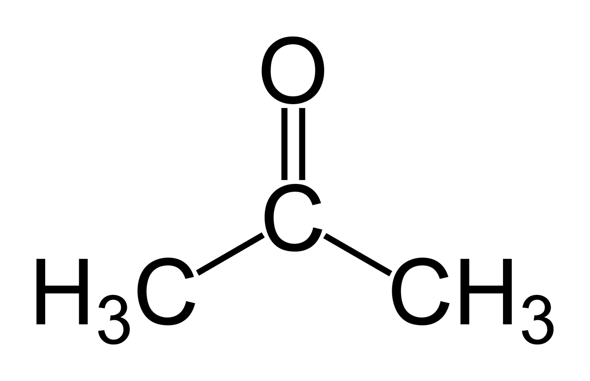 Structural formula of acetone (CH3COCH3)